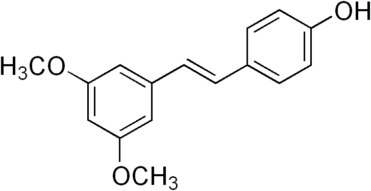 chemical structure of pterostilbene